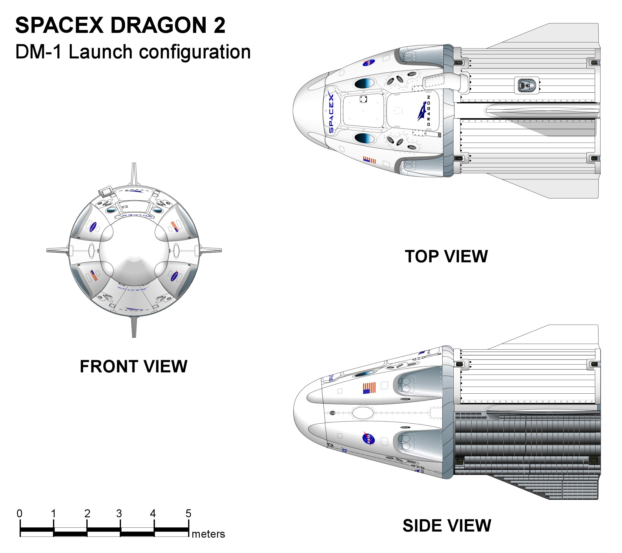 The updated Dragon 2 artwork with the 2019 version, launched as DM-1